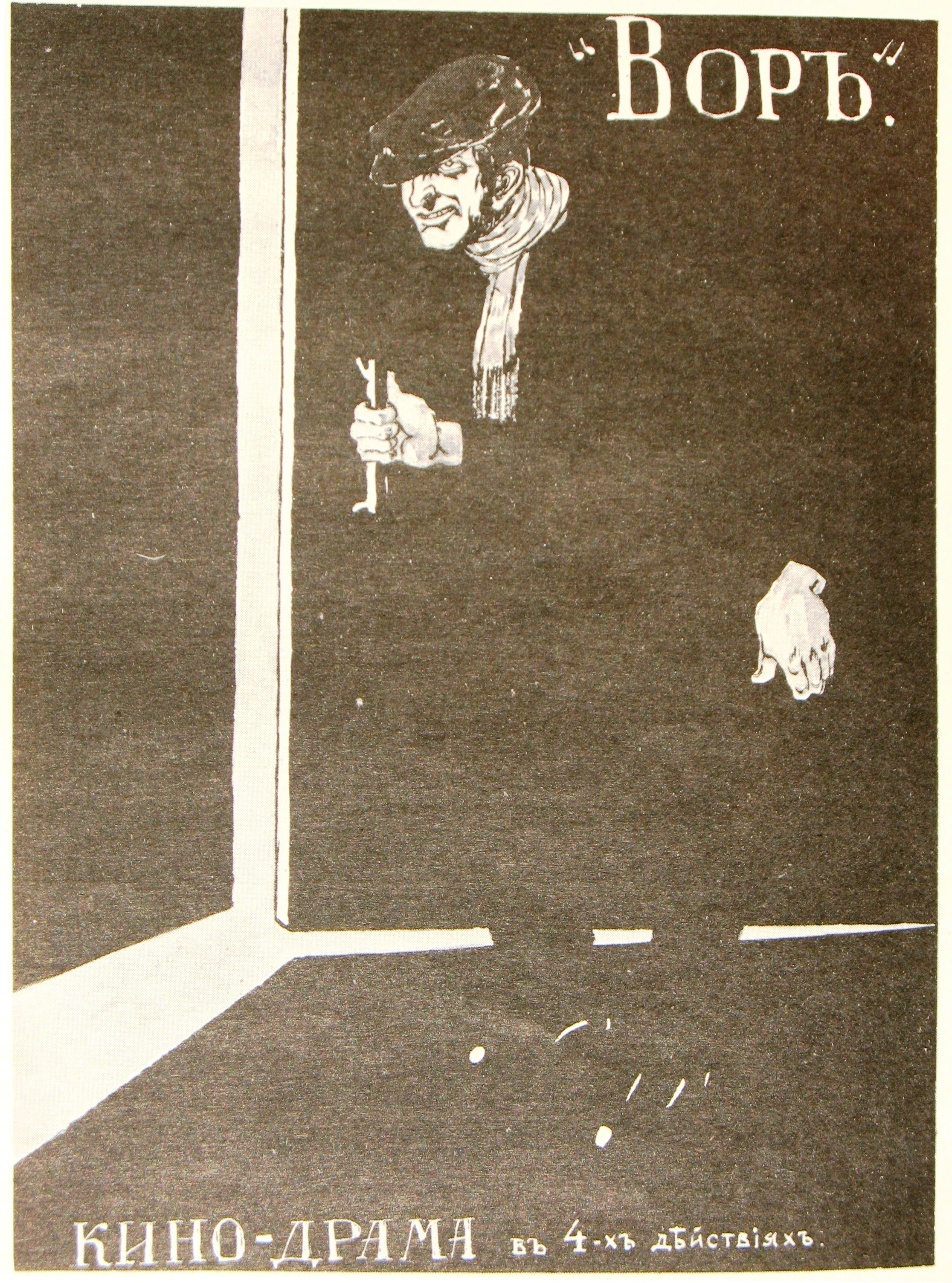 Dmitry Moor. Russian Empire cinema poster.